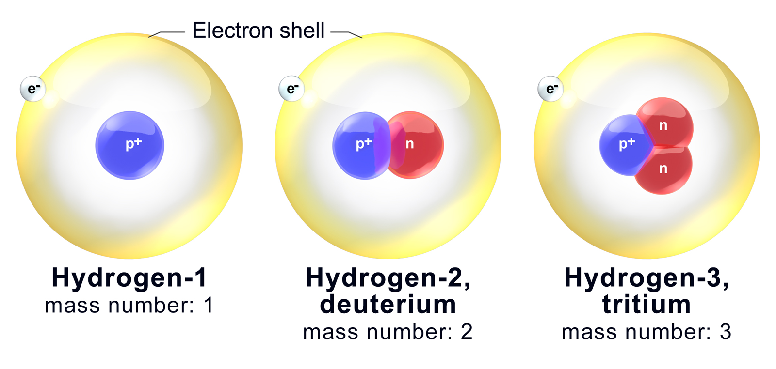 Hydrogen Isotopes. See a related animation of this medical topic.